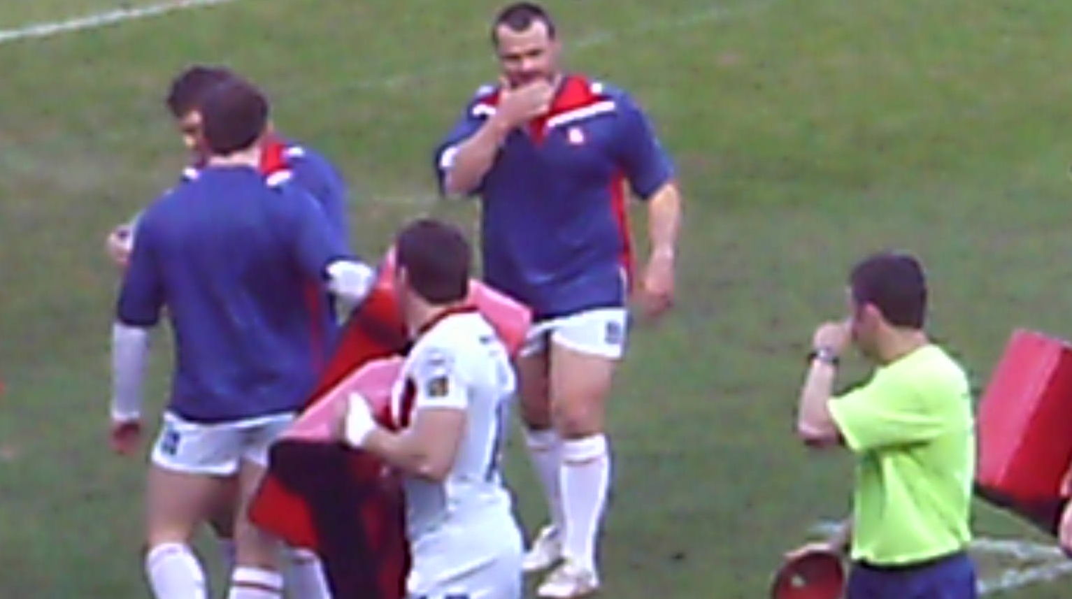 Keiron Cunningham at Harlequins vs St Helens in the European Super League.